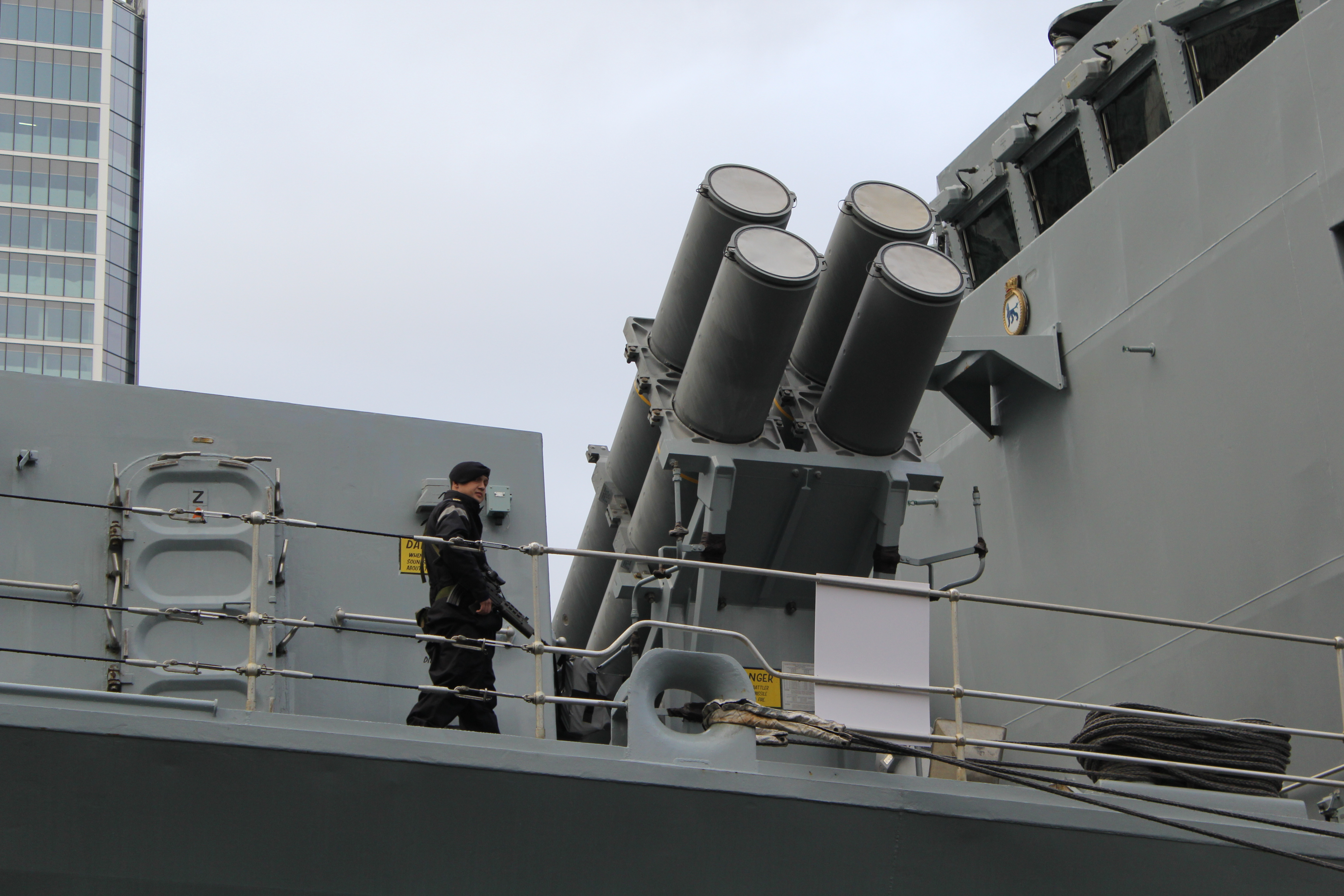 HMS Northumberland (F238) docked at West India South Dock.